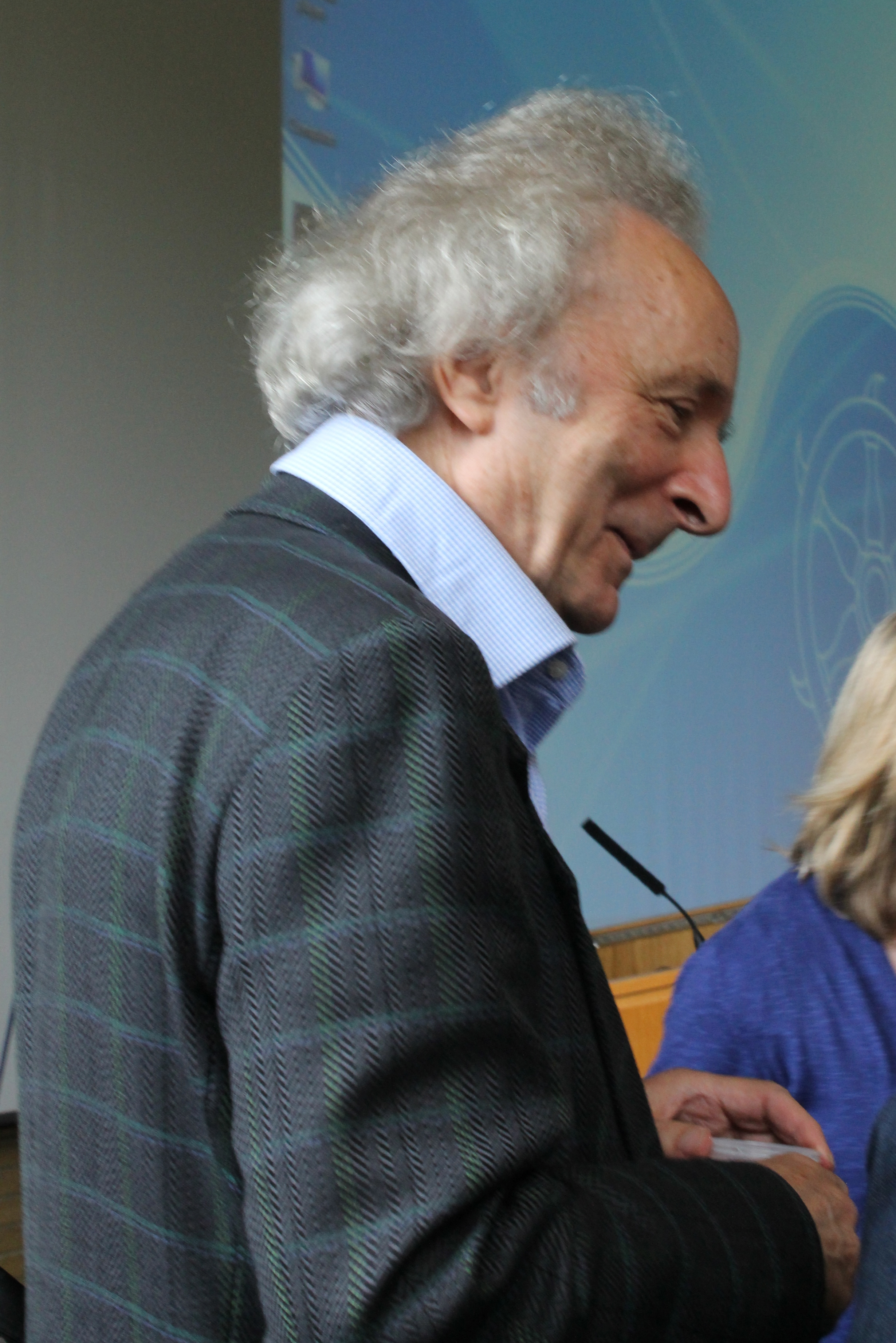 Theodore Zeldin at the Oxford Symposium on Food and Cookery, 2012.